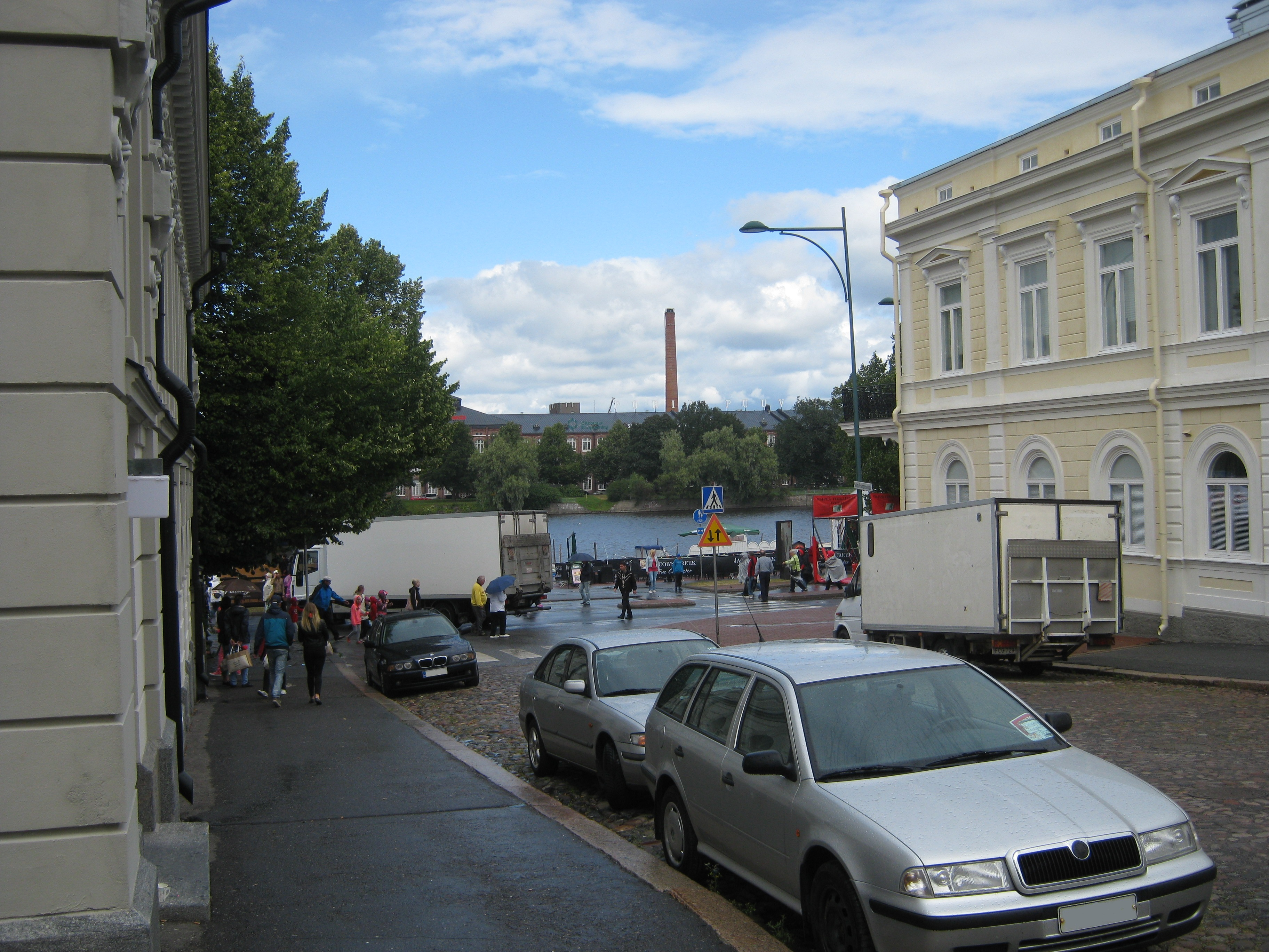 View on the river Kokemäenjoki, Pori Finland.